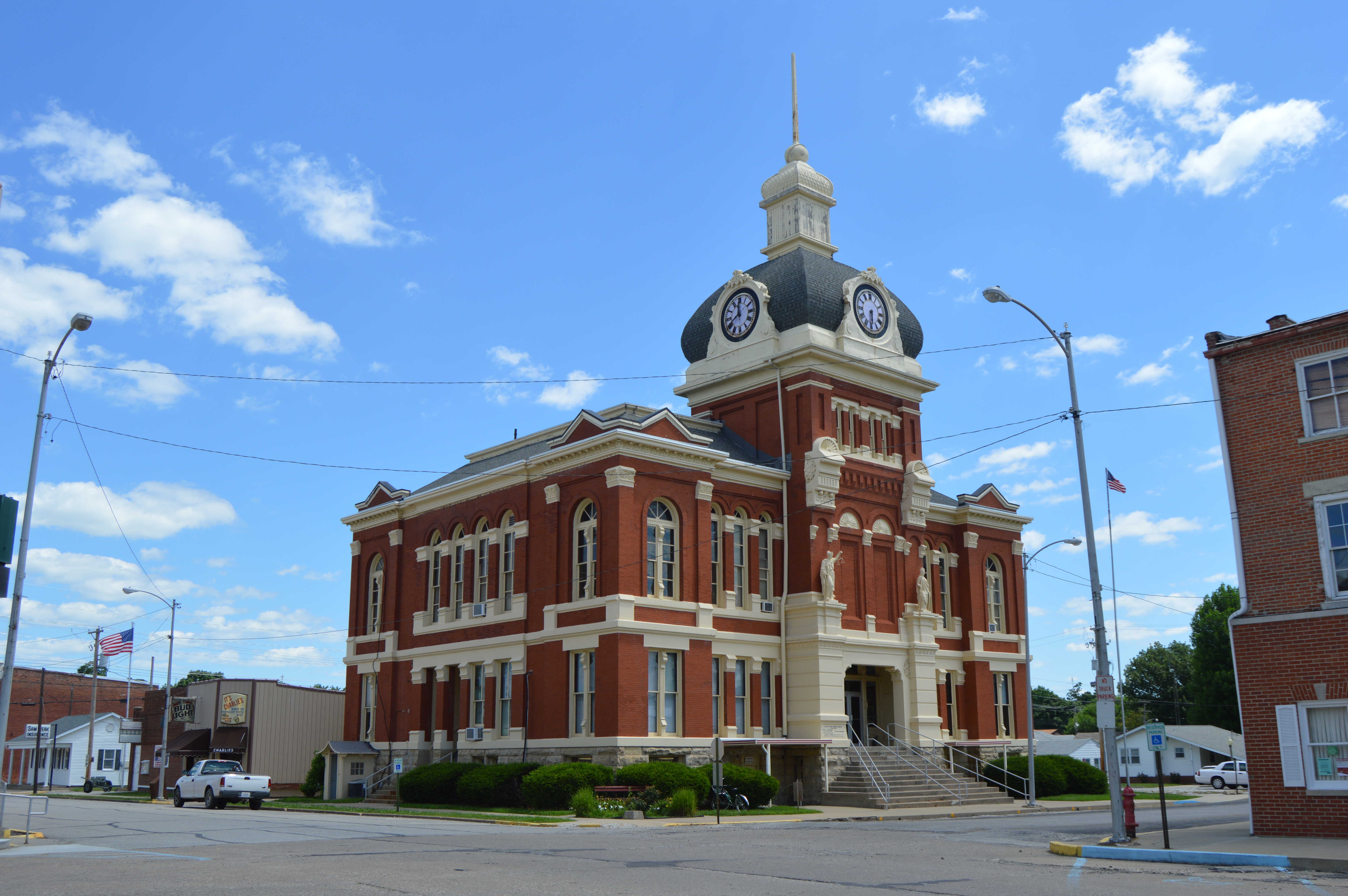 Front and western side of the Scott County Courthouse, located on the northern side of Market Street east of the Hill Street intersection in Winchester, Illinois, United States. Built in 1885, it is part of the Winchester Historic District, a historic district that is listed on the National Register of Historic Places.